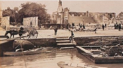 This is photo taken after the fire of 12 April 1887 burnt most of downtown St. Augustine, including the cathedral built in 1793 and the public market where slaves had been sold.